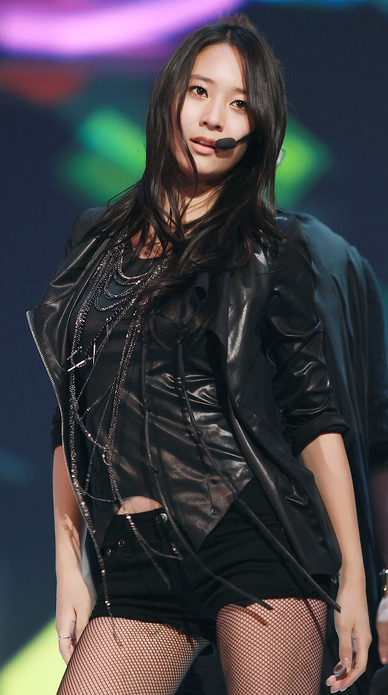 Krystal Jung at the 2010 KBS Gayo Daejun in December 30, 2010